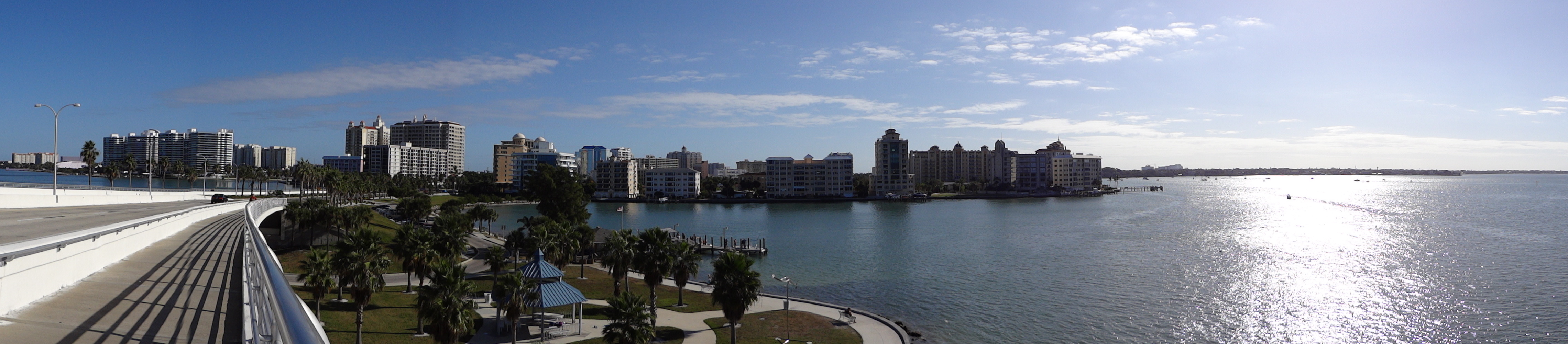 Taken from the from the Ringling Causeway bridge